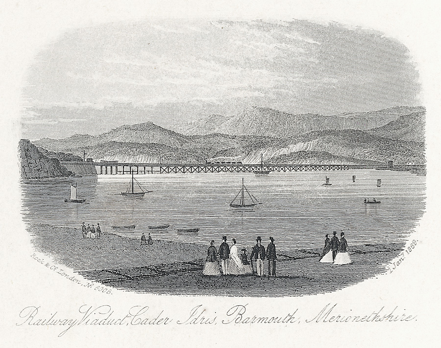 View of viaduct. People in the foreground. Mountains in background.